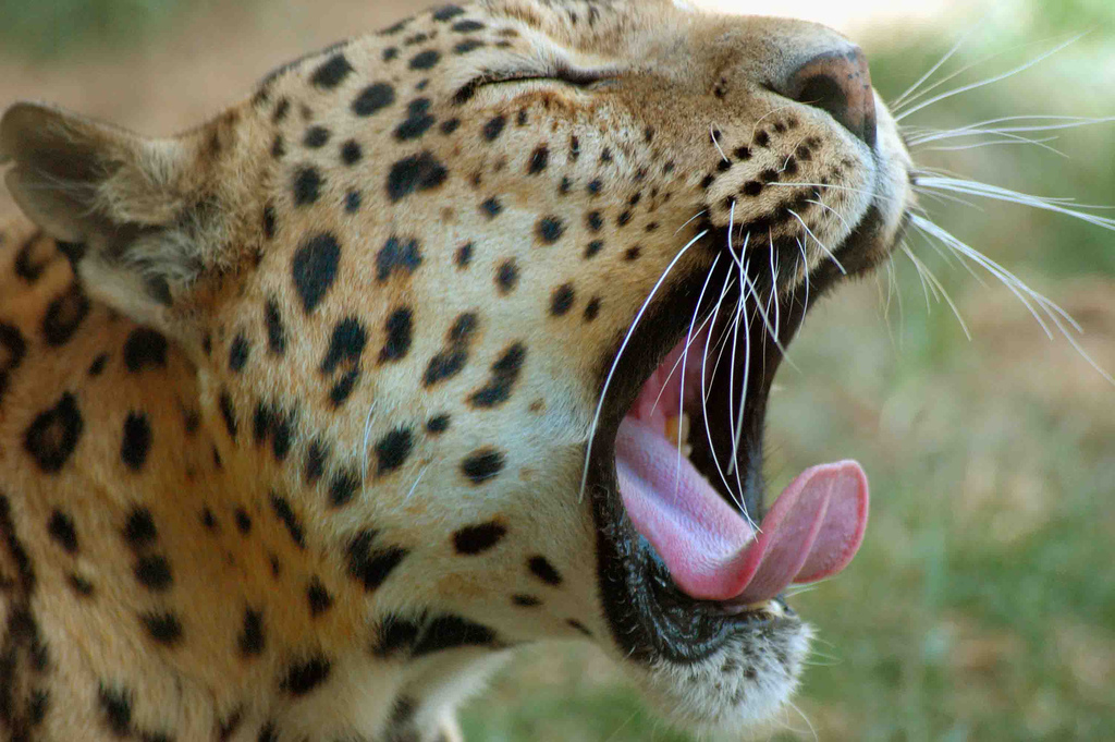 indian leopard from Kamboi near Dahod.